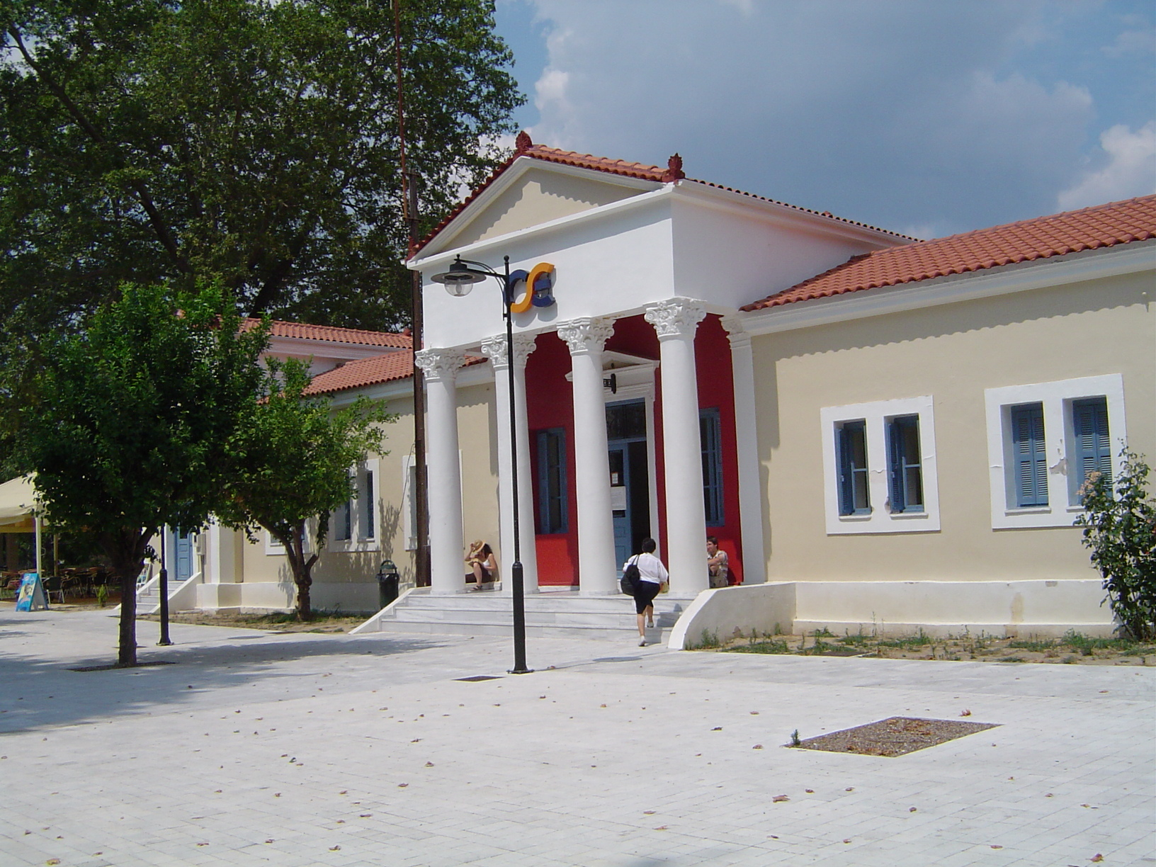 Rail station, Olympia, Greece